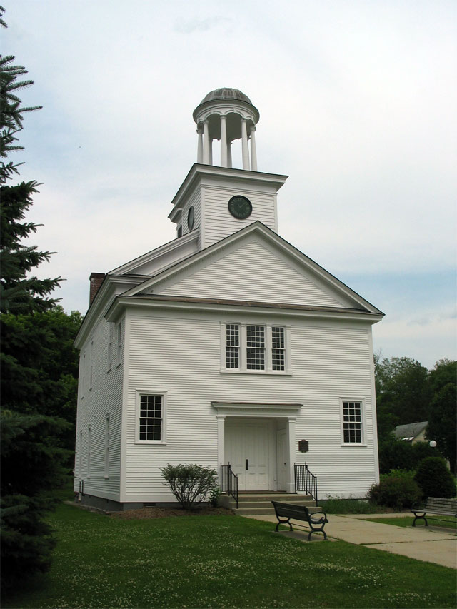 Description: Photograph of the "Old Chapel" in Castleton. The building in the photo was built in 1821. It was used by the Castleton Medical College. It was used as a dormitory, classroom space, and a chapel. The building is registered on the National Register of Historic Places. Source: Photograph taken by Jared C. Benedict on 01 July 2004. Copyright: © Jared C. Benedict.